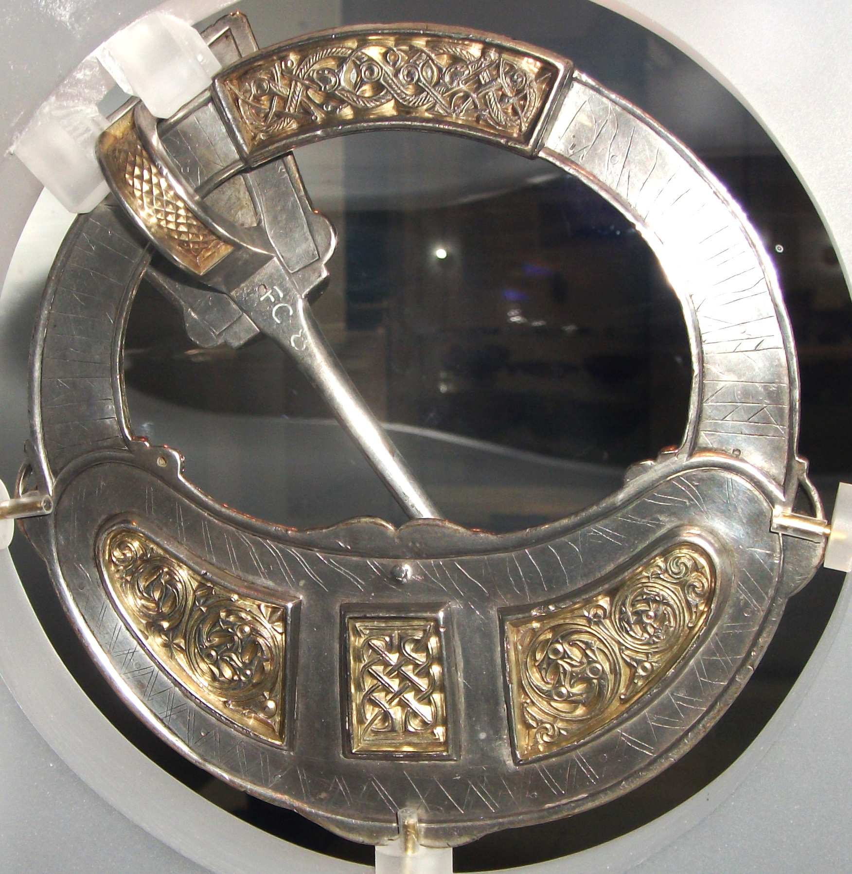 Hunterston Brooch